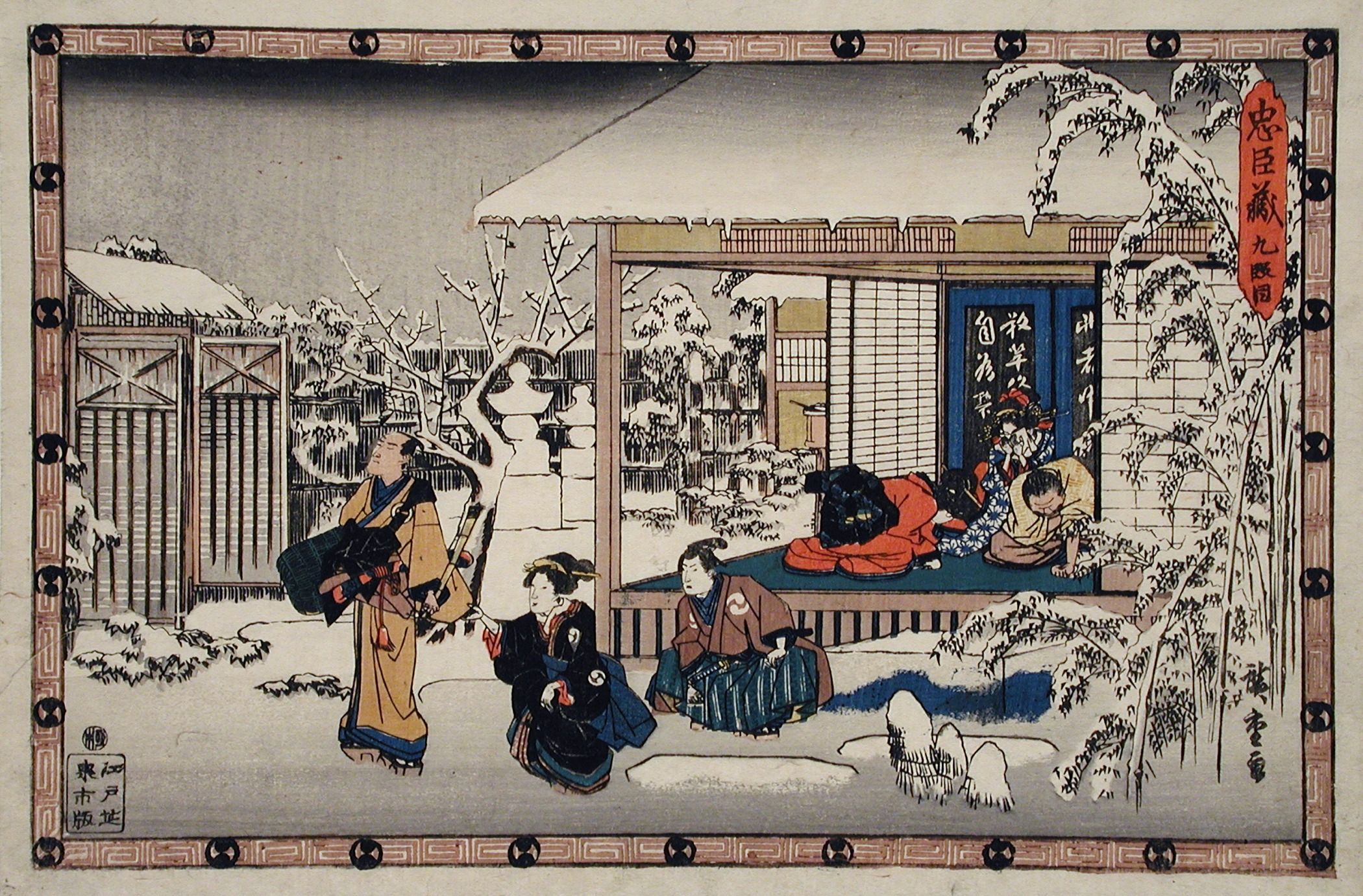 Japan, circa 1835-1839 Prints; woodcuts Color woodblock print Image: 9 3/16 x 14 1/8 in. (23.3 x 36 cm); Sheet: 10 x 14 7/8 in. (25.4 x 37.7 cm) Gift of Dr. Harvey Eagleson (M.66.35.54) Japanese Art